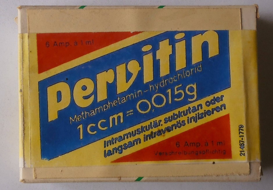 packaging containing six Pervitin (methamphetamine hydrochloride) ampoules from Germany